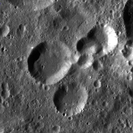 Armiński crater